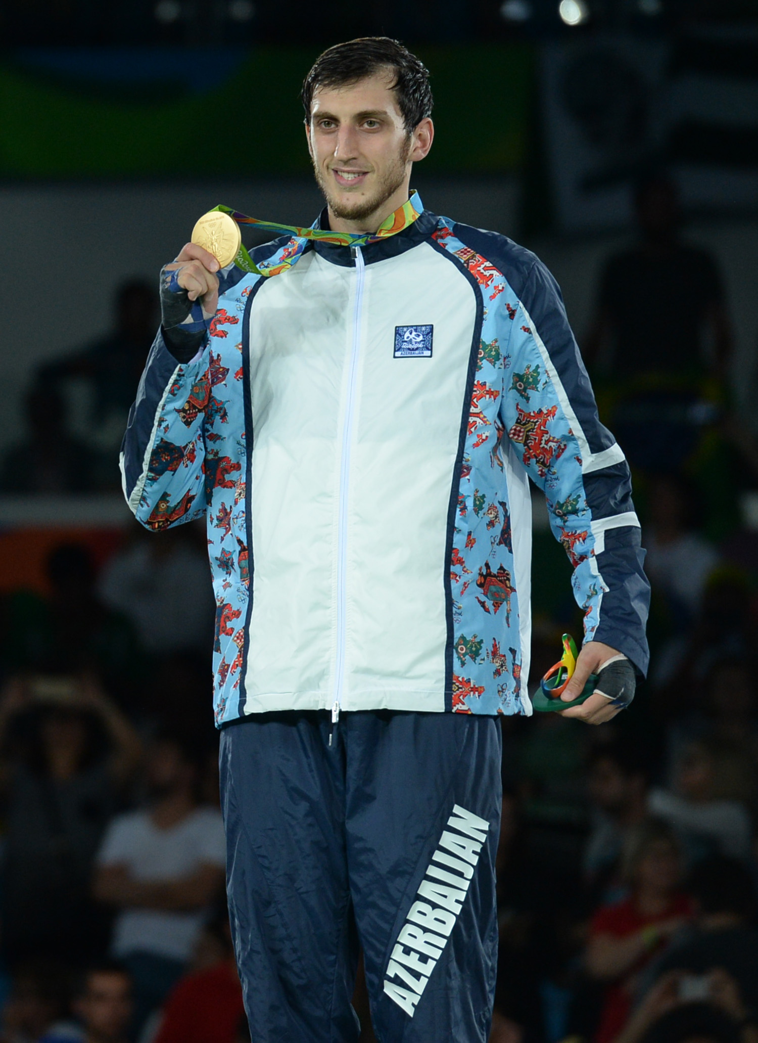 Radik Isaev at the 2016 Summer Olympics awarding ceremony